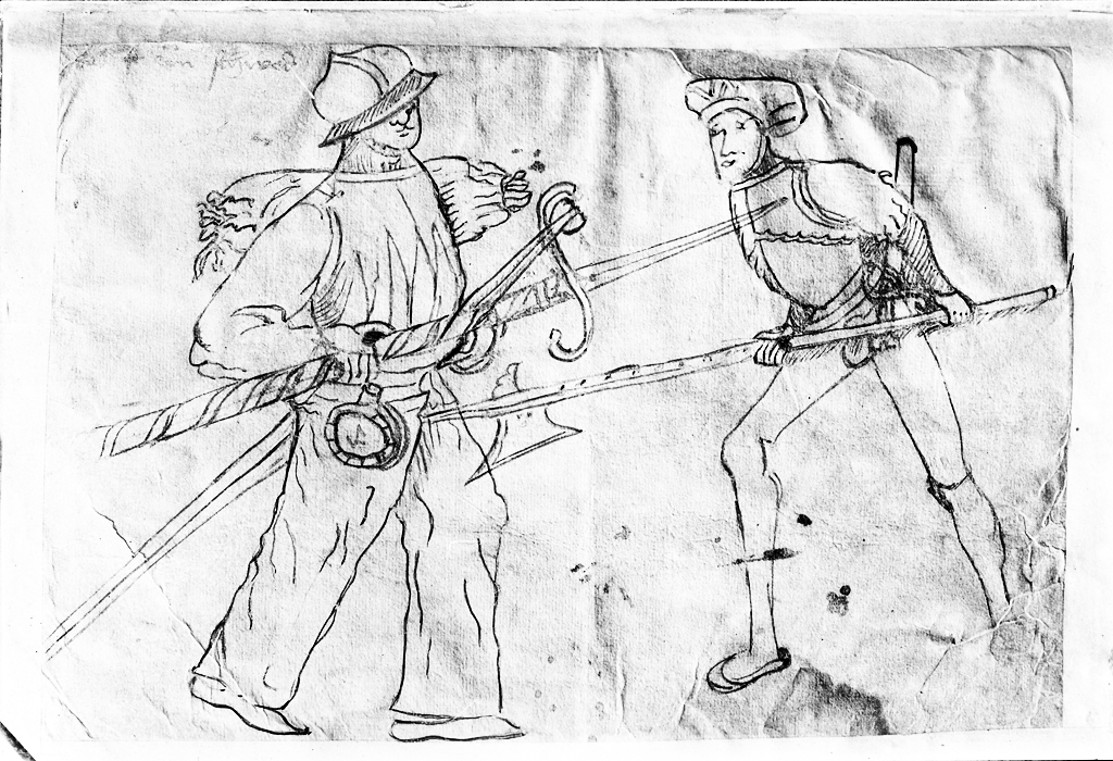 Battle between a Swedish soldier (to the left) and a German soldier of fortune (Landsknecht), at the Danish siege of Old Älvsborg Fortress in 1502. Drawing from c. 1502 by the German soldier of fortune (Landsknecht) Paul Dolnstein, who himself participated in the Danish army. Strid mellan en svensk soldat (till vänster) och tysk landsknekt, vid den danska belägringen av Gamla Älvsborgs slott 1502. Teckning från cirka 1502 av den tyske landsknekten Paul Dolnstein, som själv deltog i den danska hären. Collection: Photo collections, Archives of Swedish National Heritage Board. The original drawing is probably kept in the State Archives of Weimar in Germany. Parish (socken): Göteborg Province (landskap): Västergötland Municipality (kommun): Göteborg County (län): Västra Götaland Photograph by: Unknown Date: c. 1930 Format: Glass plate negative Persistent URL: Read more about the photo database (in english)